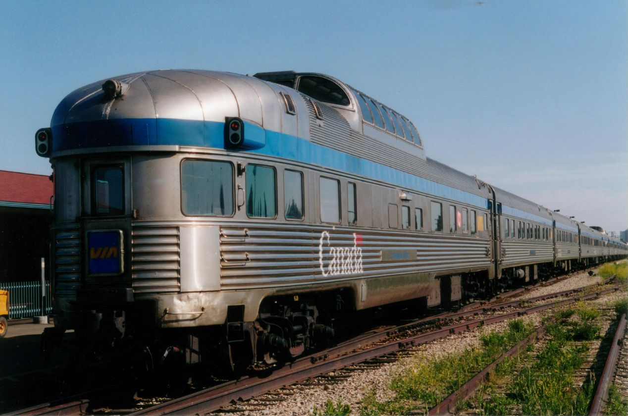 VIA Passenger Train Canada